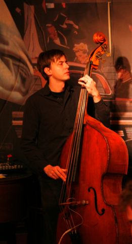 Musician photo